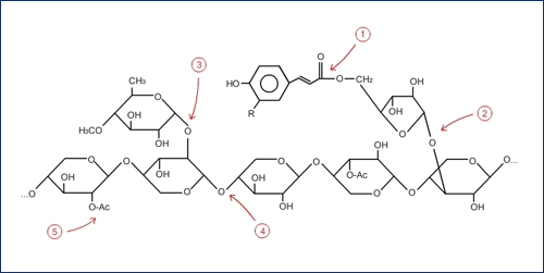 degraded xylan by enzymes